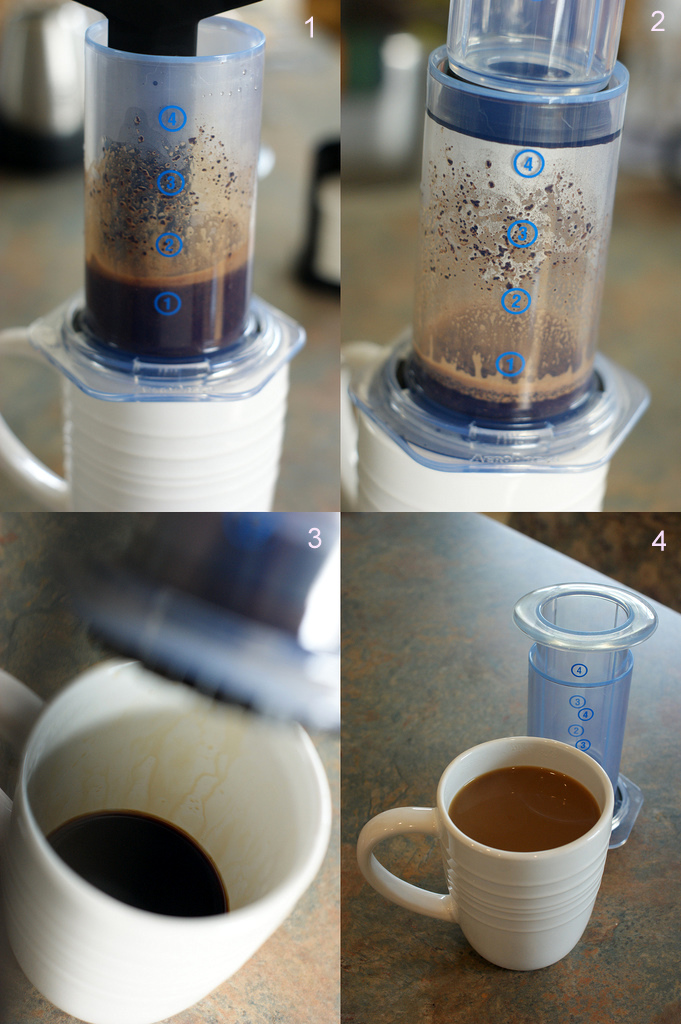 AeroPress coffee making